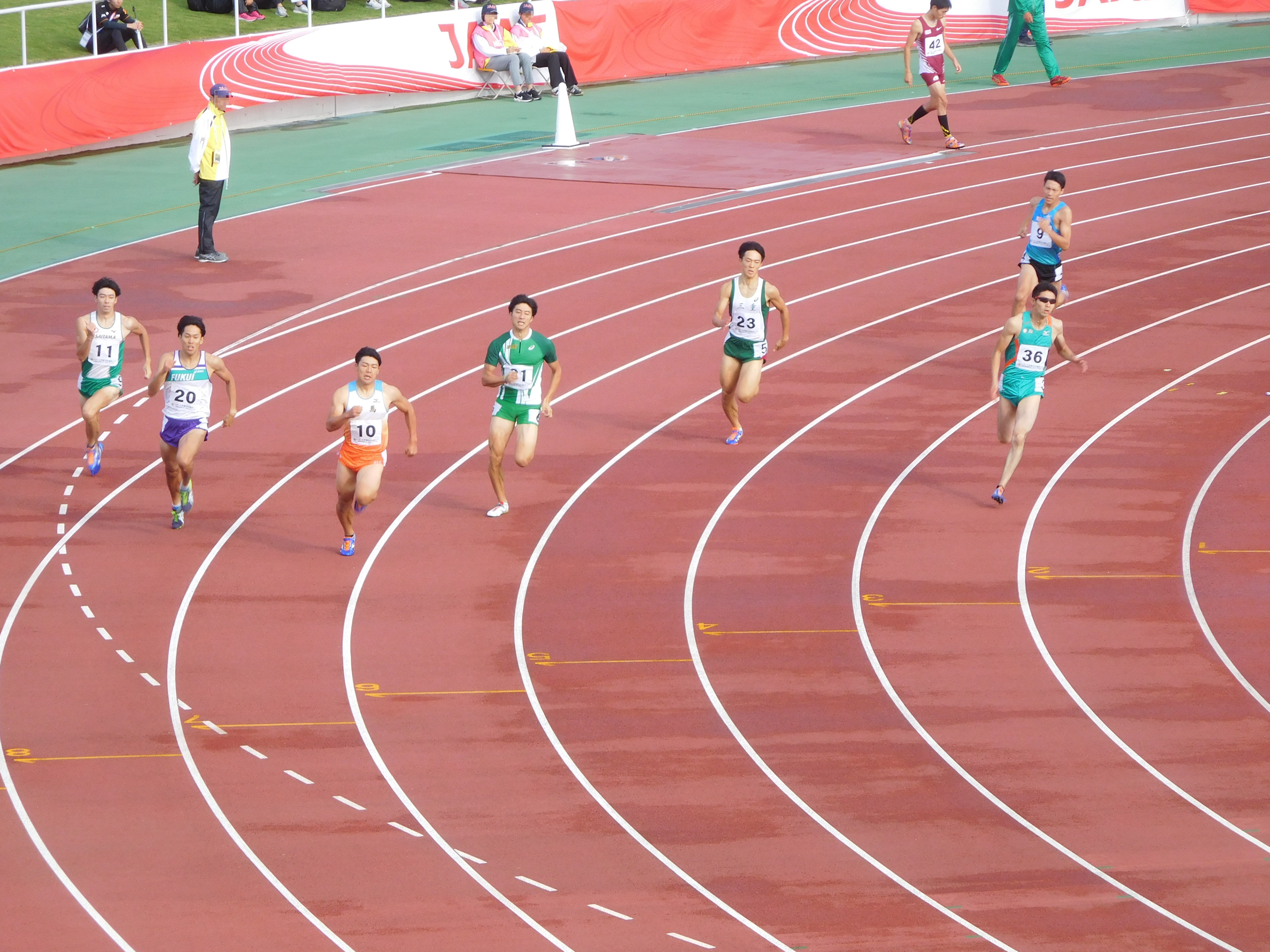 Athletics Competition at the 74th National Sports Festival of Japan. One scene of the men's 400 m dash final game.